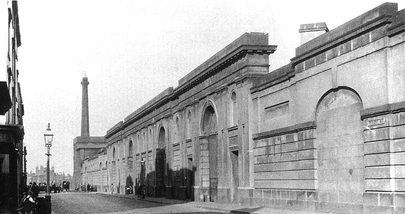 rand Junction Railway Curzon Street Station View looking along Curzon Street towards Lawley Street with Franklin's ornate screen wall on the right. The Grand Junction Railway appointed Joseph Franklin of Liverpool to design its Birmingham station, and he followed the fashion of the time of building an impressive frontage or screen with simple train sheds hidden behind. As seen above, the screen was in three sections with the middle sction consisting of four large Roman arched doorways, set in a wall interspersed with pilasters and niches under a deep cornice and parapet. Its overall length was 700 feet with the central section being some 230 feet long and the two wings being 170 feet long. The remaining 130 feet of frontage consisted of a plain high boundar wall which ran between the left hand wing and the canal bridge.